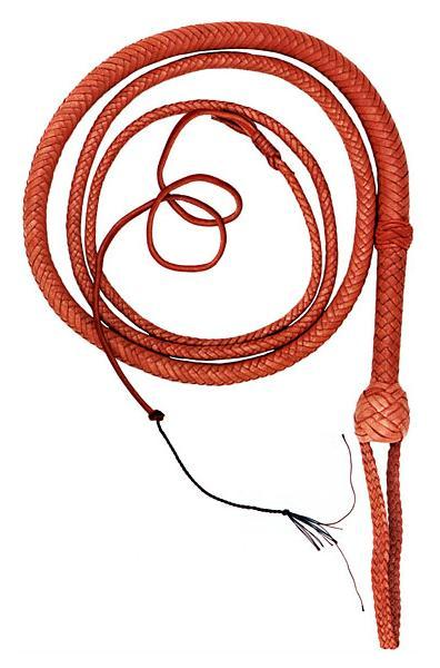 Indy's whip